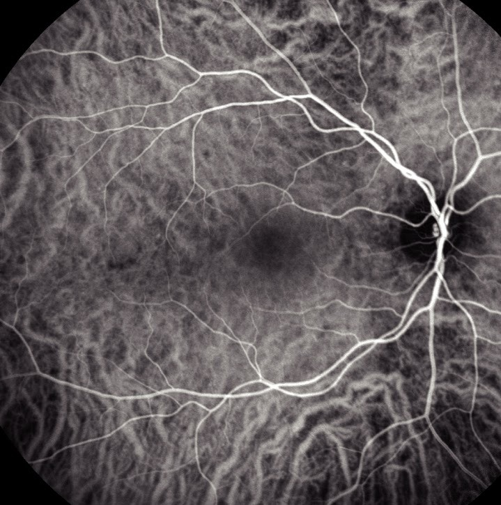 Angiographies of the eye fundus revealing the choroid. ICG-angiography (Spectralis, Heidelberg, left) and laser Doppler holography (right)